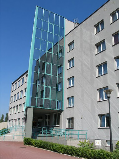 budynek P